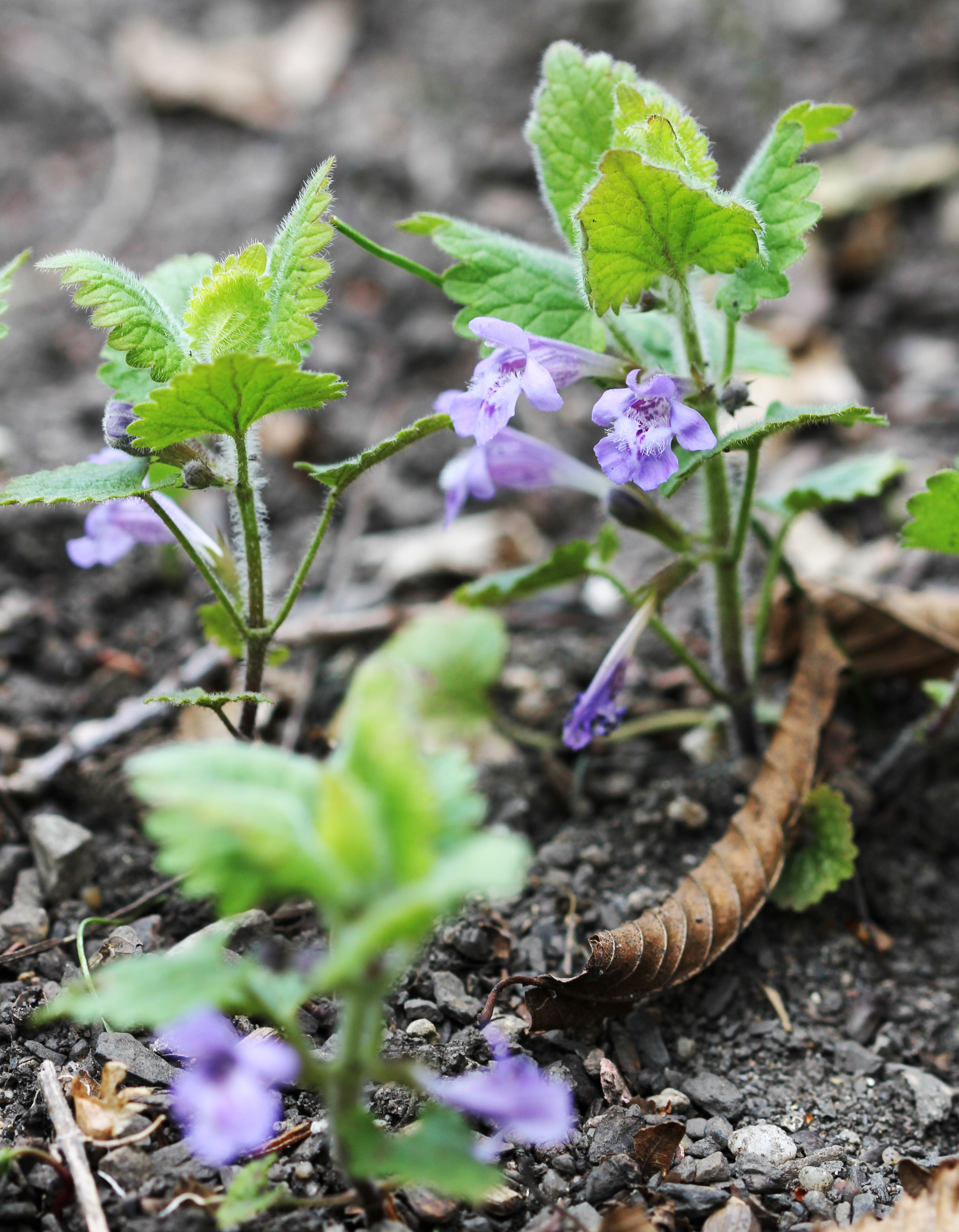 Flowering plants Glechoma hirsuta, (Glechoma hirsuta) from the Botanical Gardens of Charles University, Prague, Czech Republic